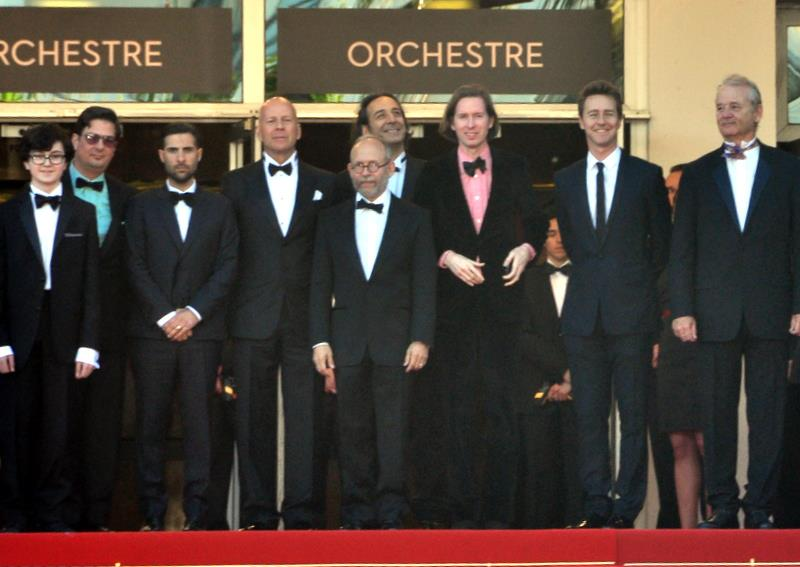 Cast and director of "Moonrise kingdom" at the Cannes film festival